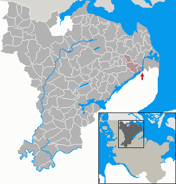 This map shows the area of the town Arnis in the Kreis (district) Schleswig-Flensburg, Schleswig-Holstein, Germany.